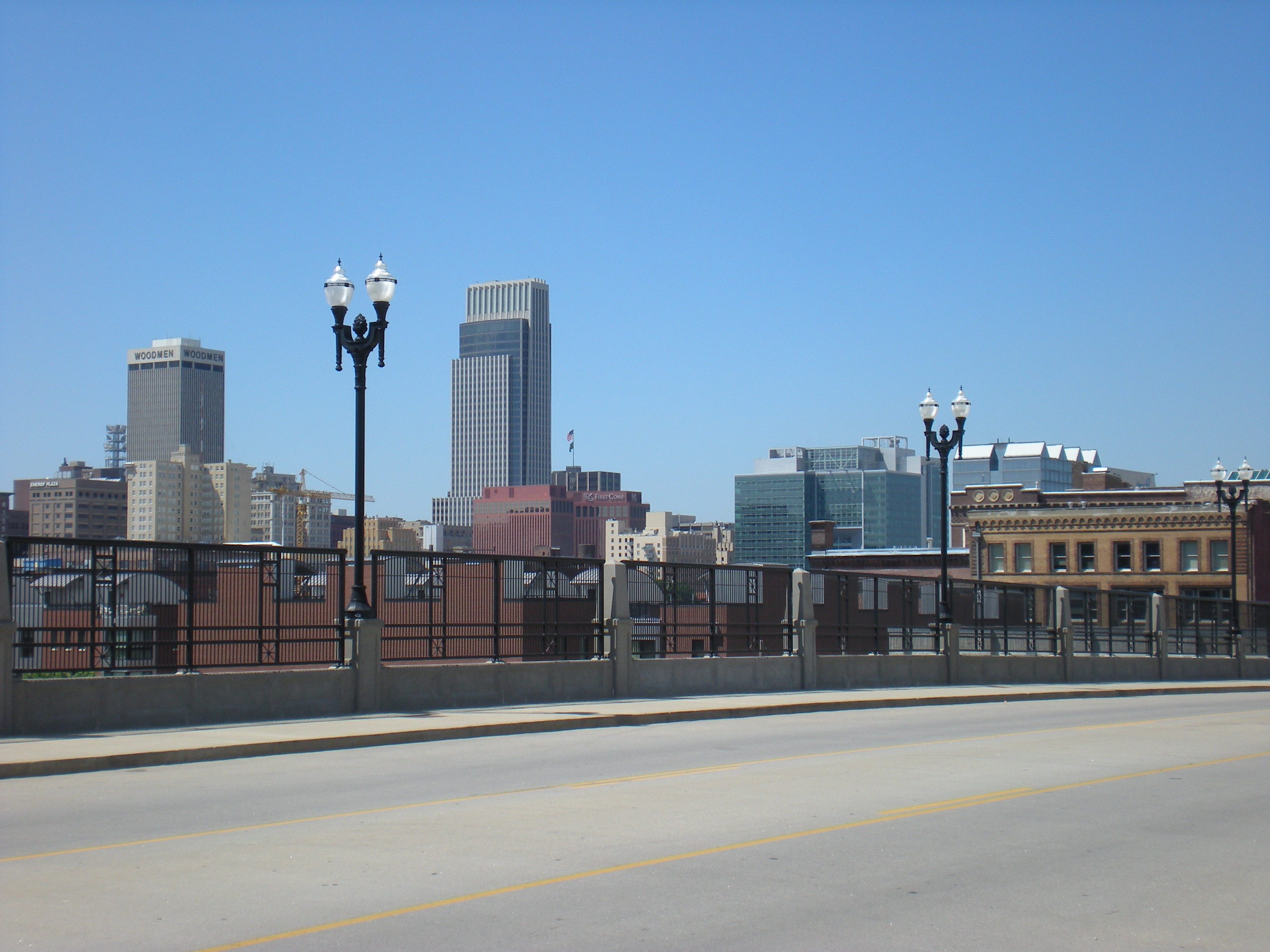 I took this photo of Downtown Omaha in 2008